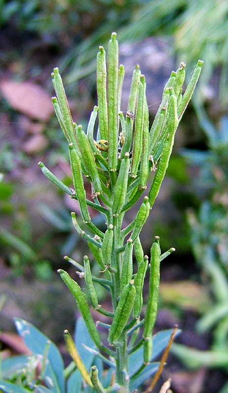 Wallflower